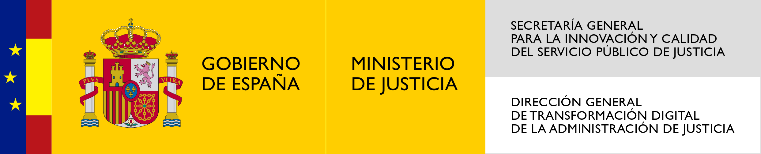 Logo of the Directorate-General for the Modernization of Justice, Technological Development and Recovery and Asset Management of the Government of Spain.